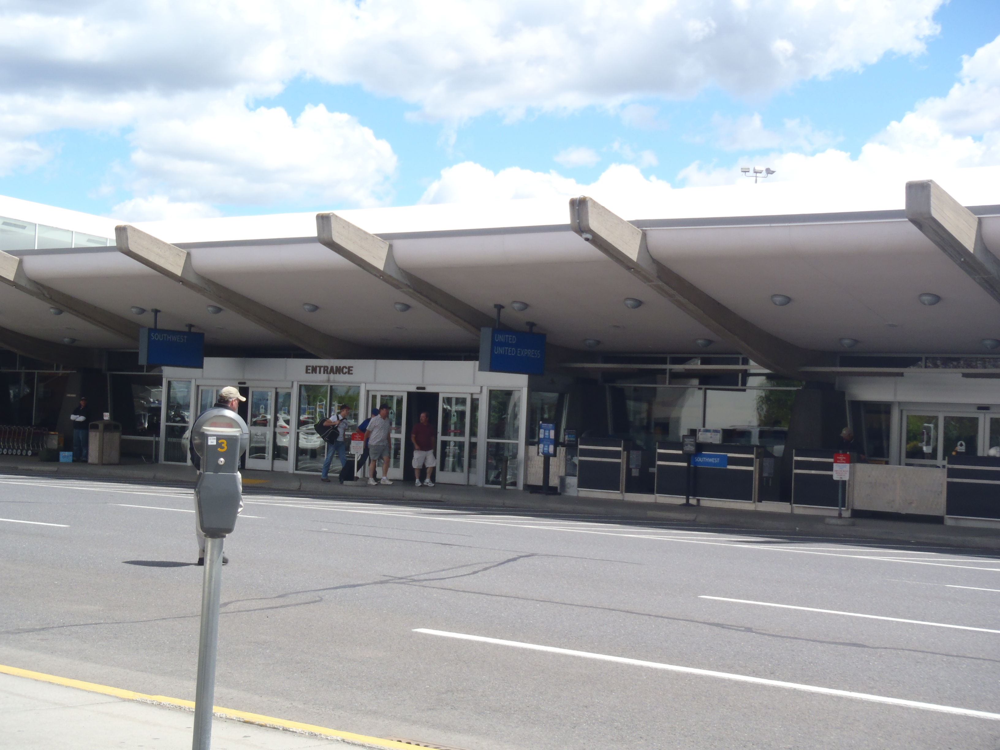 Concourse B at Spokane International Airport (KGEG)